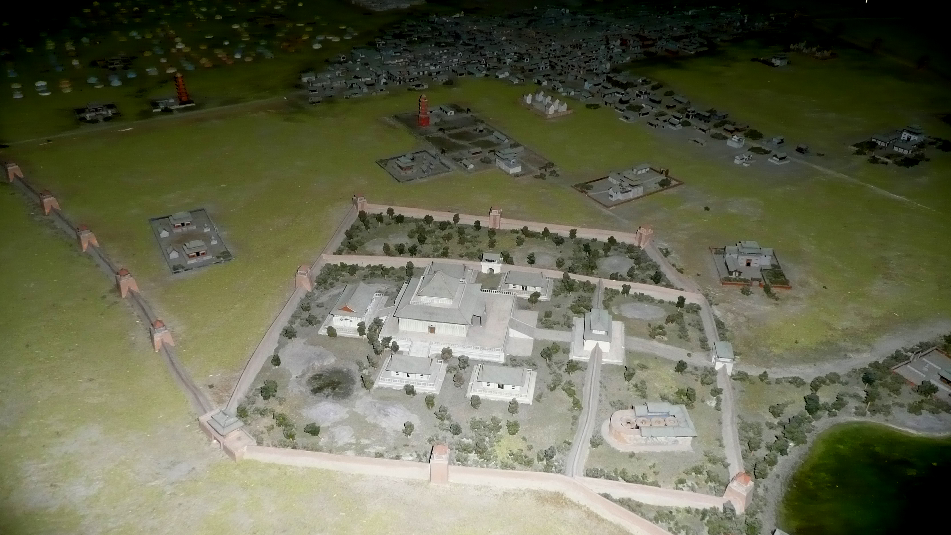 Model of the Khan Palace in Karakorum in the National Museum of Mongolian History in Ulan Bator